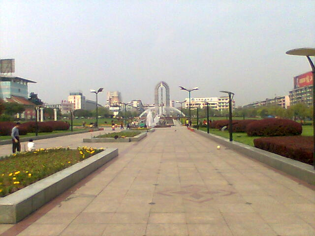 Wu Yi (First of May) Square in Yichang's Wujiagang District